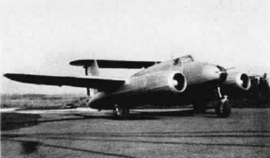 The French SNCAC NC.1701 jet bomber prototype in 1950. the NC.1071 was a turbojet-powered derivative of the NC.1070. The two Hispano-Suiza (Rolls Royce) Nene 101 engines were housed in large underwing engine nacelles. The nancelles also carried the tailfins which were connected by a tailplane on top. The first prototype flew on 12 October 1948. The NC.1071 was cancelled in 1951.